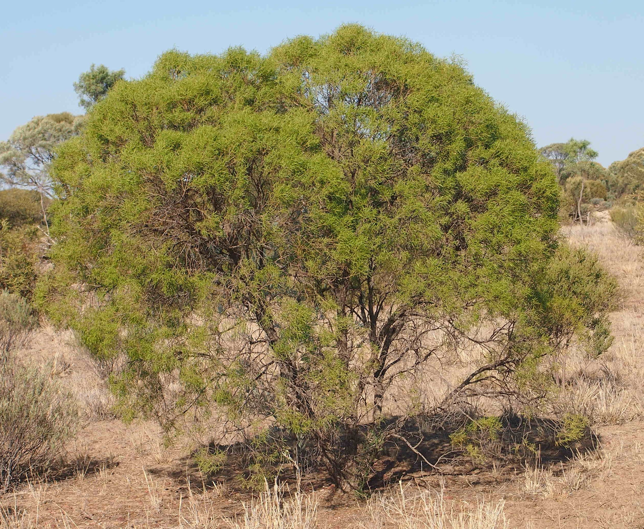 Eremophila mitchellii habit